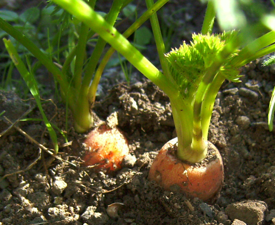 Carrots (Daucus carota) cultivar Nantese, still in te ground, showing the upper root system. The stem is only the disk bellow the leaves.